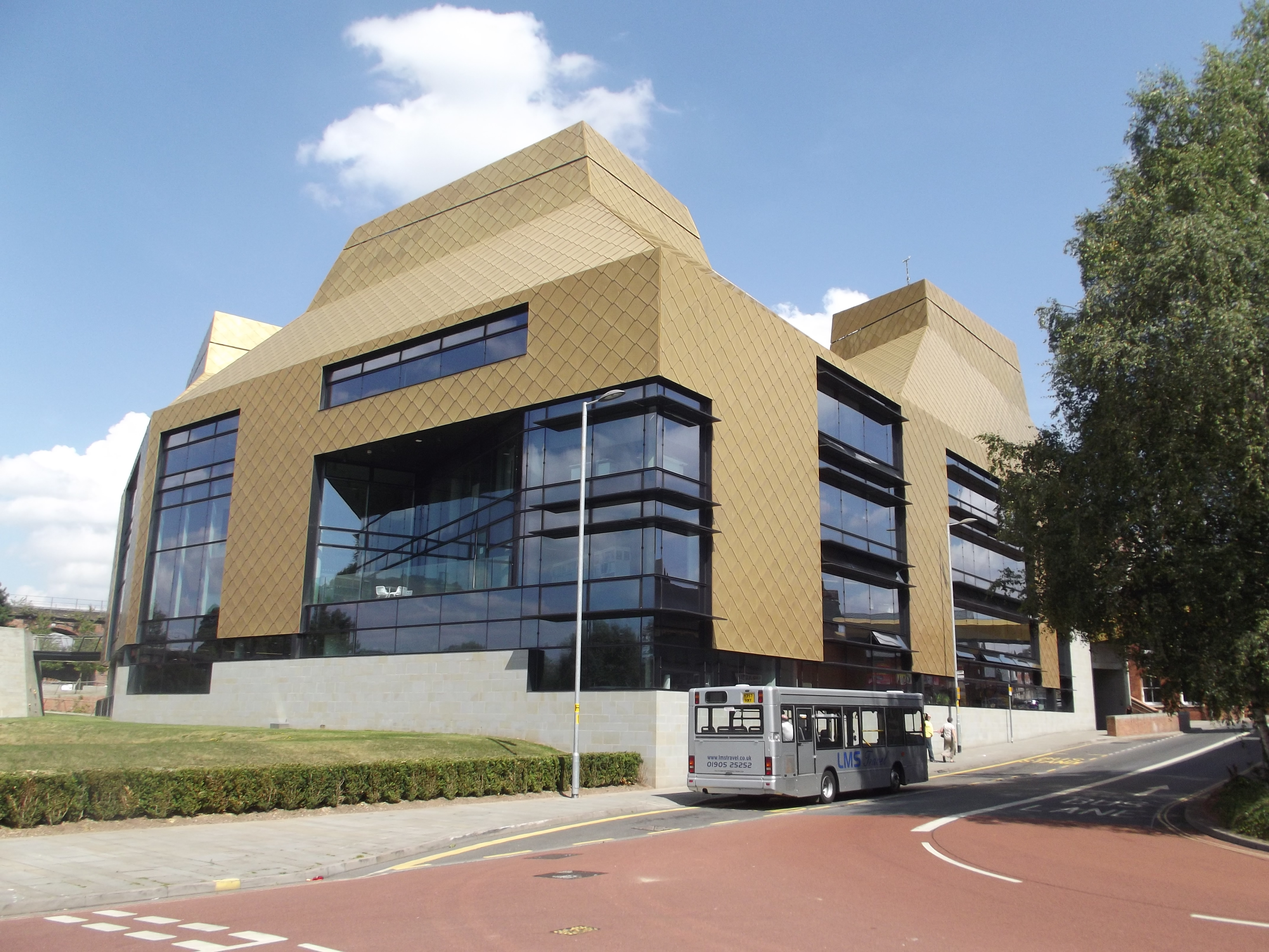 The Hive is library that opened in 2012, and is part of the University of Worcester. Located near The Butts in Worcester. The Worcester Library and History Centre is located in the library. It opened in July 2012. The Hive, Worcester The Hive, is a large golden-coloured building in Worcester, England, which houses the fully integrated Worcestershire County Council public library and the University of Worcester's academic library, the county Archive & Archaeology Service and the Worcestershire Hub city branch. The Hive was the first library in Europe to house both a University book collection and a public lending library. It was opened to the public on 2 July 2012 and officially opened by HM Queen Elizabeth II in her diamond jubilee year (12 July 2012). The Hive houses over 12 miles (19 km) of archive collections including William Shakespeare’s marriage bond to Anne Hathaway, a quarter of a million books and more than 26,000 records of historic monuments and buildings, as well as the Worcestershire Hub city branch, a business centre, café and meeting facilities. The award-winning design of the building uses advanced environmental technology to improve sustainability, including river water cooling and a bio-mass boiler when heating is needed.